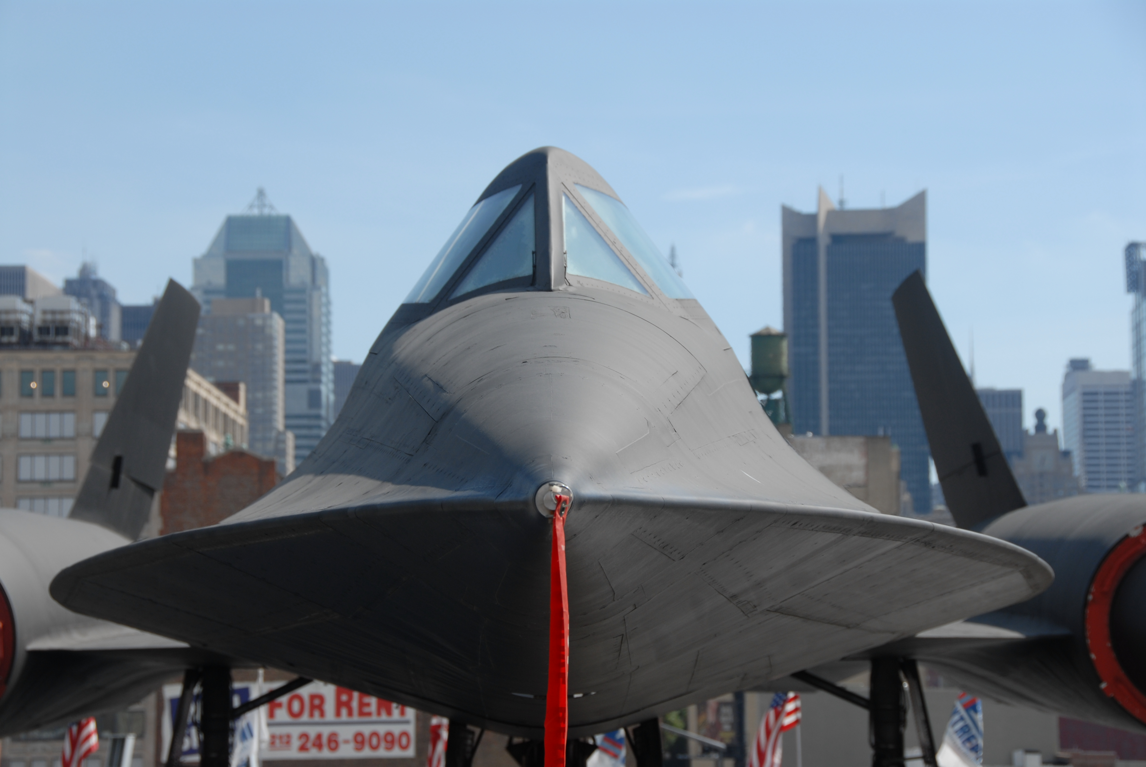 Head-on view of an Lockheed A-12 on the flight deck of the Intrepid Sea, Air & Space Museum in New York City.